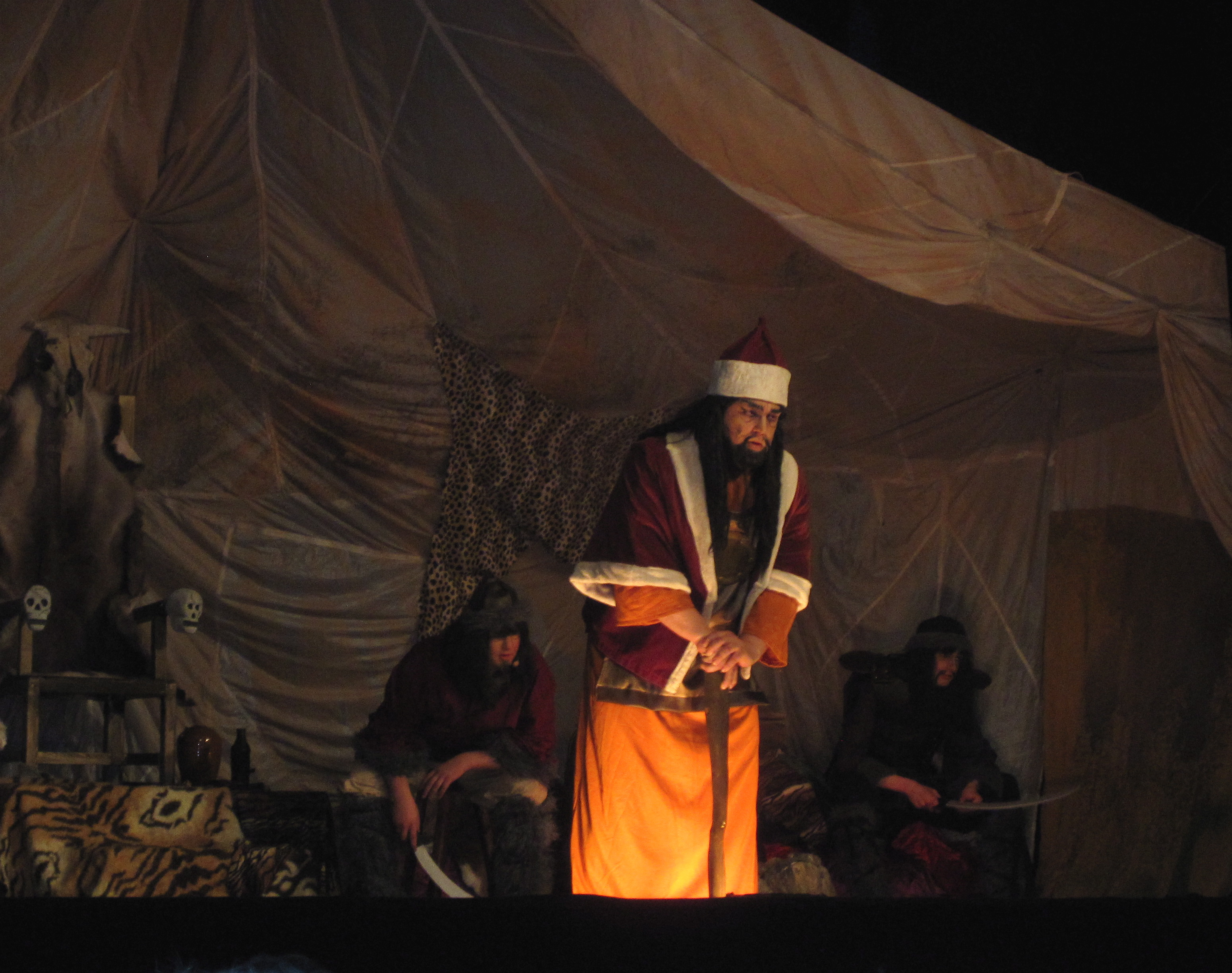 Scene from act 1 of the classic Lundian "spex" Djingis Khan, taken at a performance in April 2011 in connection with the 125 years jubilee of Lundaspexarna.